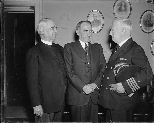 Washington, D.C., Mar. 25. Navy Chaplain opens the house with a prayer for the first time since 1820. It is the first time in 117 years that the Navy was again honored in giving the invocation. Left to right: James S. Montgomery, Chaplain of the House; Speaker William Bankhead of Ala.; and Capt. Edward A. Duff, Chief of Chaplains U.S. Navy Digital ID: (digital file from original negative) hec 22454 Reproduction Number: LC-DIG-hec-22454 (digital file from original negative) Repository: Library of Congress Prints and Photographs Division Washington, D.C. 20540 USA